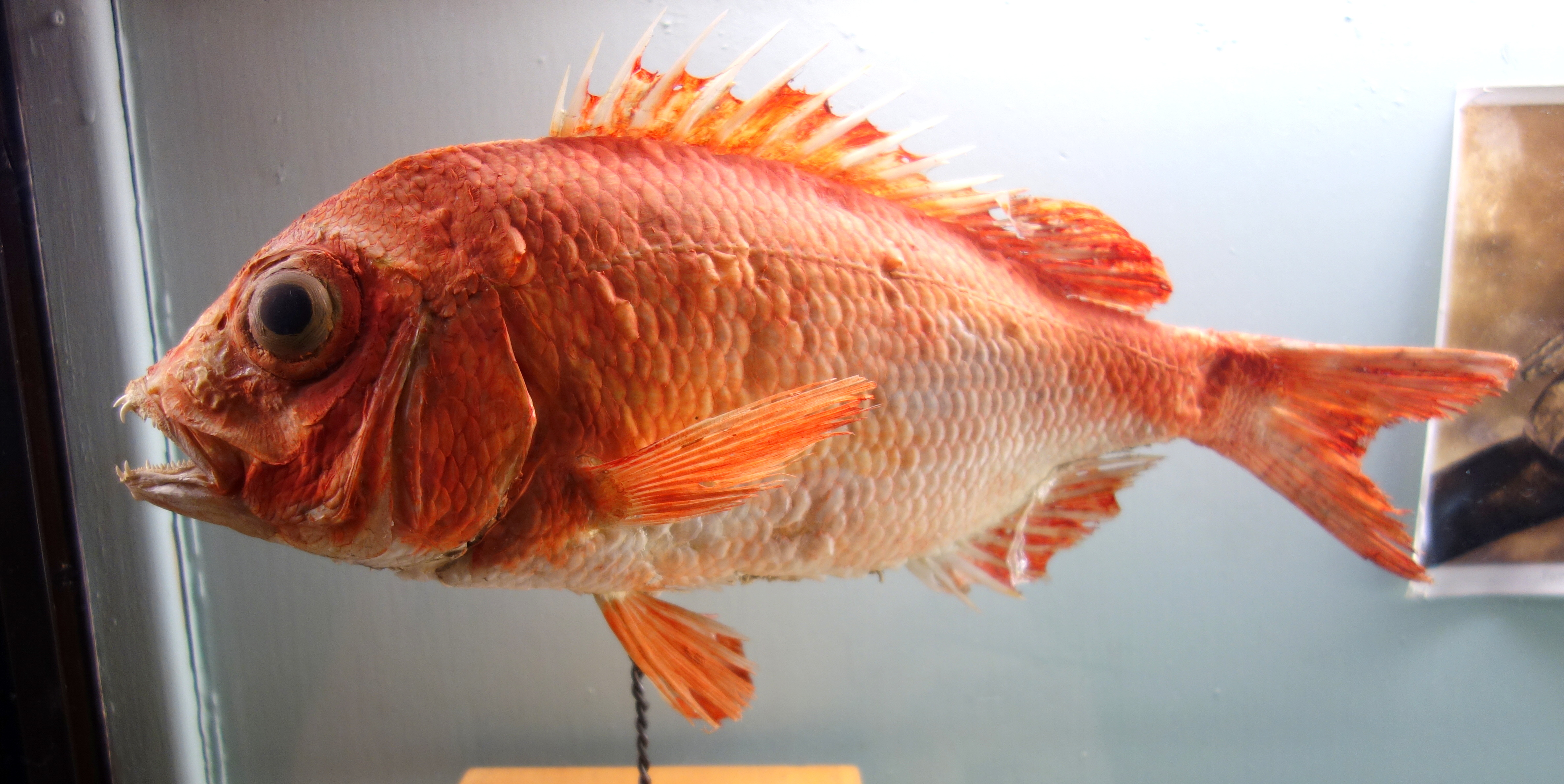 Exhibit in the Royal Museum for Central Africa, Tervuren, Belgium.